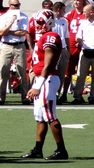 Wisconsin Badgers quarterback Russell Wilson in Camp Randall Stadium against the Oregon State Beavers.